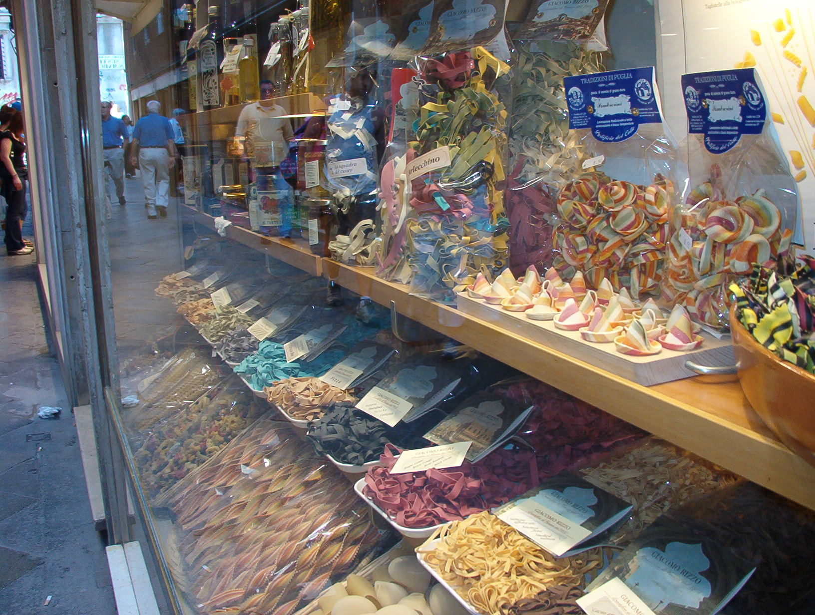 Pasta in the window of a pasta speciality store in Venice.